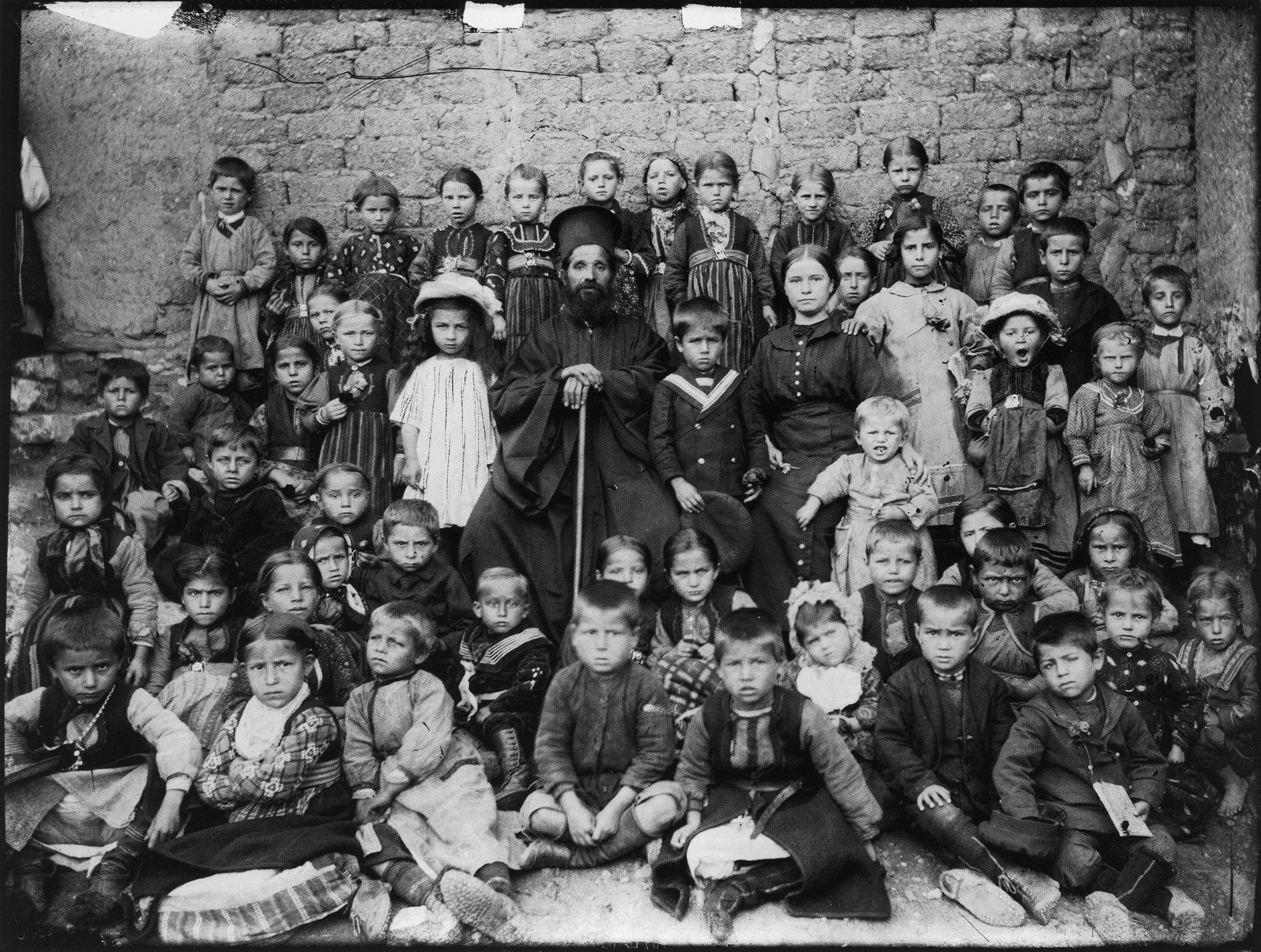 Pupils of the Greek school in Zhoupanishta, region of Kastoria (today Ano Levki, Greece).